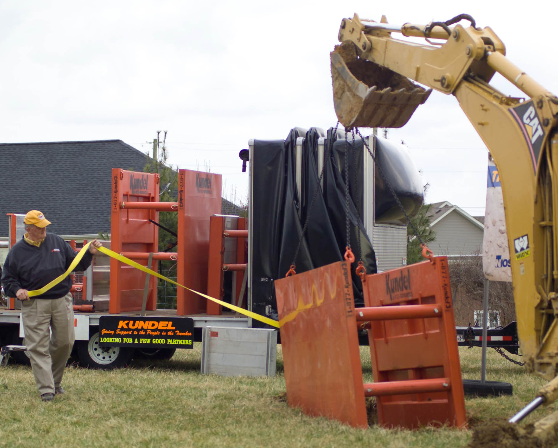 Instructor demonstrating correct method of guiding the trench box into the trench